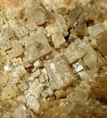 Calomel Locality: Mariposa Mine (California Mountain Mine), Terlingua District, Brewster County, Texas, USA (Locality at ) Size: small cabinet, 7.2 x 5.0 x 2.5 cm Calomel (XLS!!) A superb rarity in unusually large and rich form...this is a VERY rare crysatllized example from Texas of Calomel on matrix.